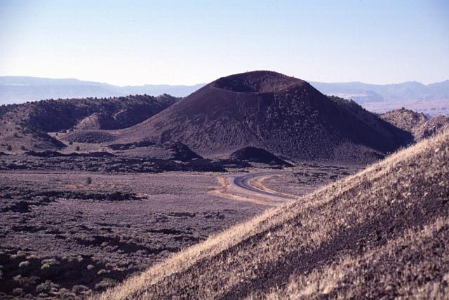 Santa Clara Volcano in southwestern Utah, USA.